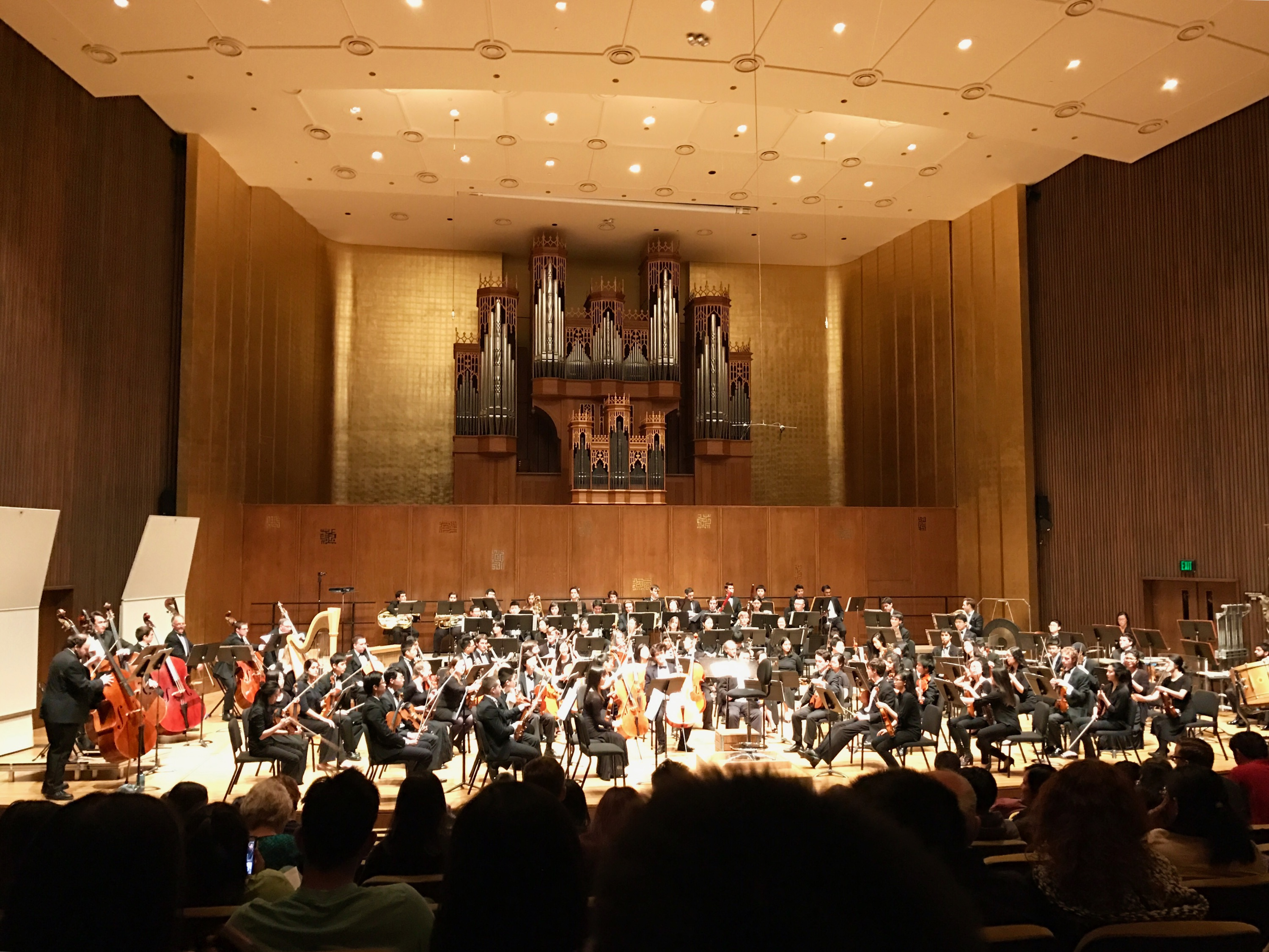 UCBSO